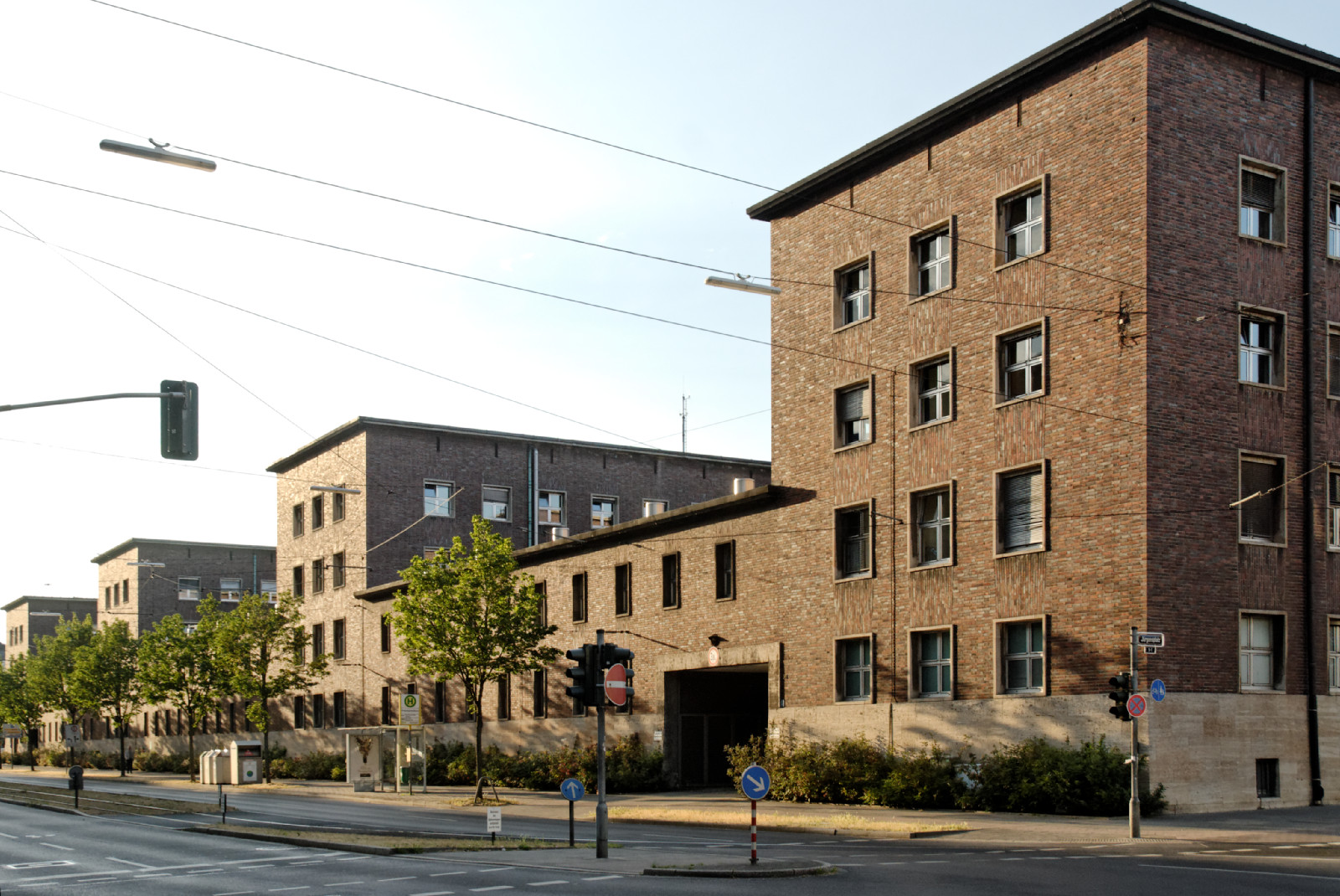 Polizeipräsidium, Jürgensplatz 5 in Düsseldorf-Unterbilk, Germany